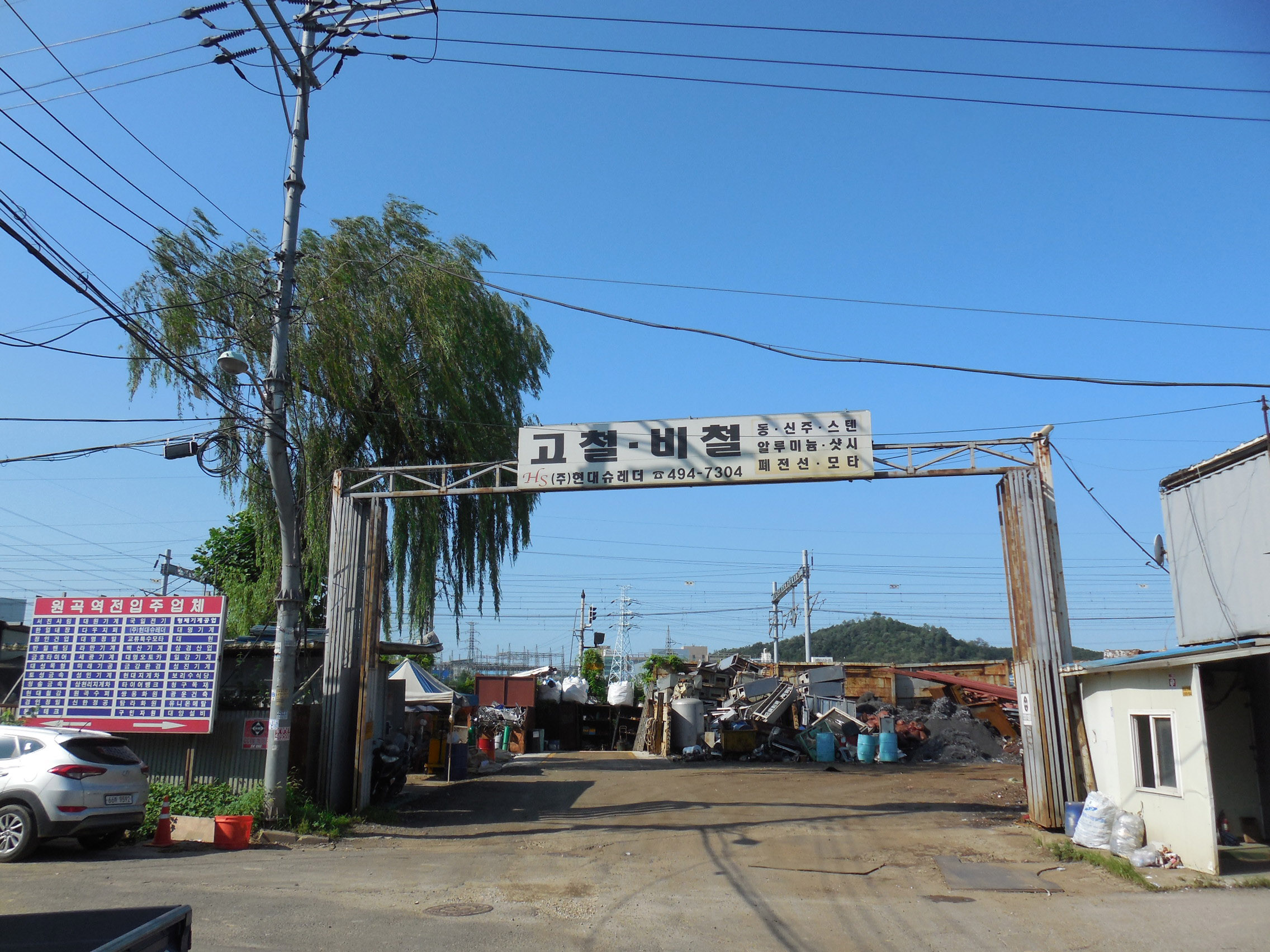 Korea National Railroad Suin Line Wongok Station (demolished).